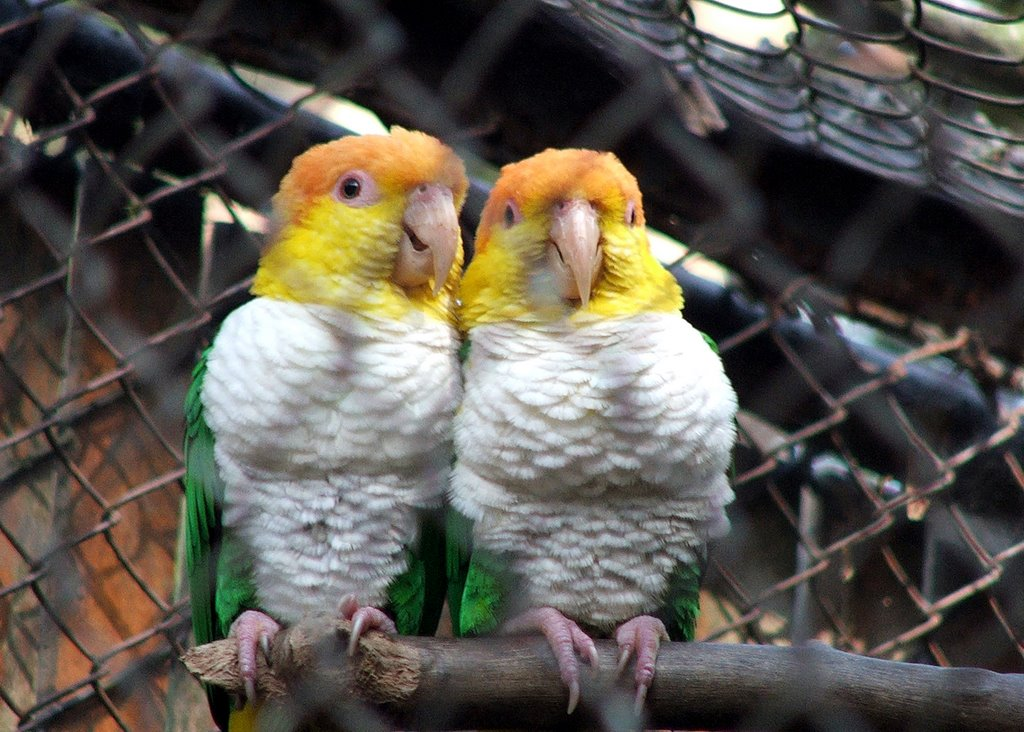 White-bellied Parrot at Zoológico de São Paulo, Brazil. This subspecies is also known as the Green-thighed Parrot/Caique.